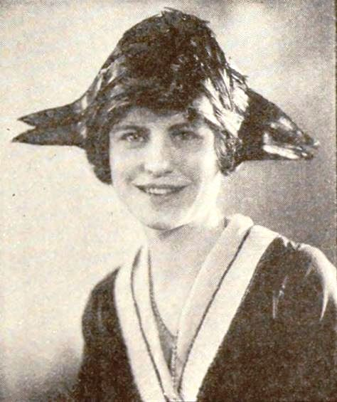 Actress and screenwriter Jeanie MacPherson on page 49 of the September 1921 Photoplay.